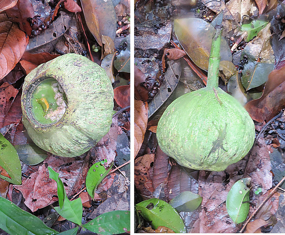 Pods of the Sachamango tree, which is found mainly from Costa Rica to Colombia. Photo from Barro Colorado Island, Panama.